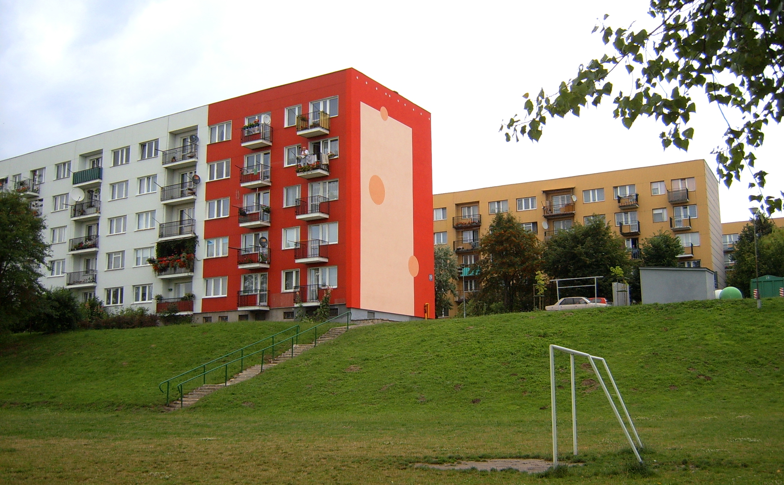 Orzeszkowej housing estate in Zamość